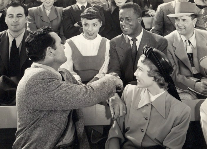 Ruby Dee & Joel Fluellen (center) in The Jackie Robinson Story - publicity still (cropped)